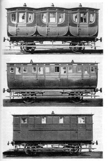 Railway coaches (1st, 2nd & 3th class) of the Company Nord Belge in 1860